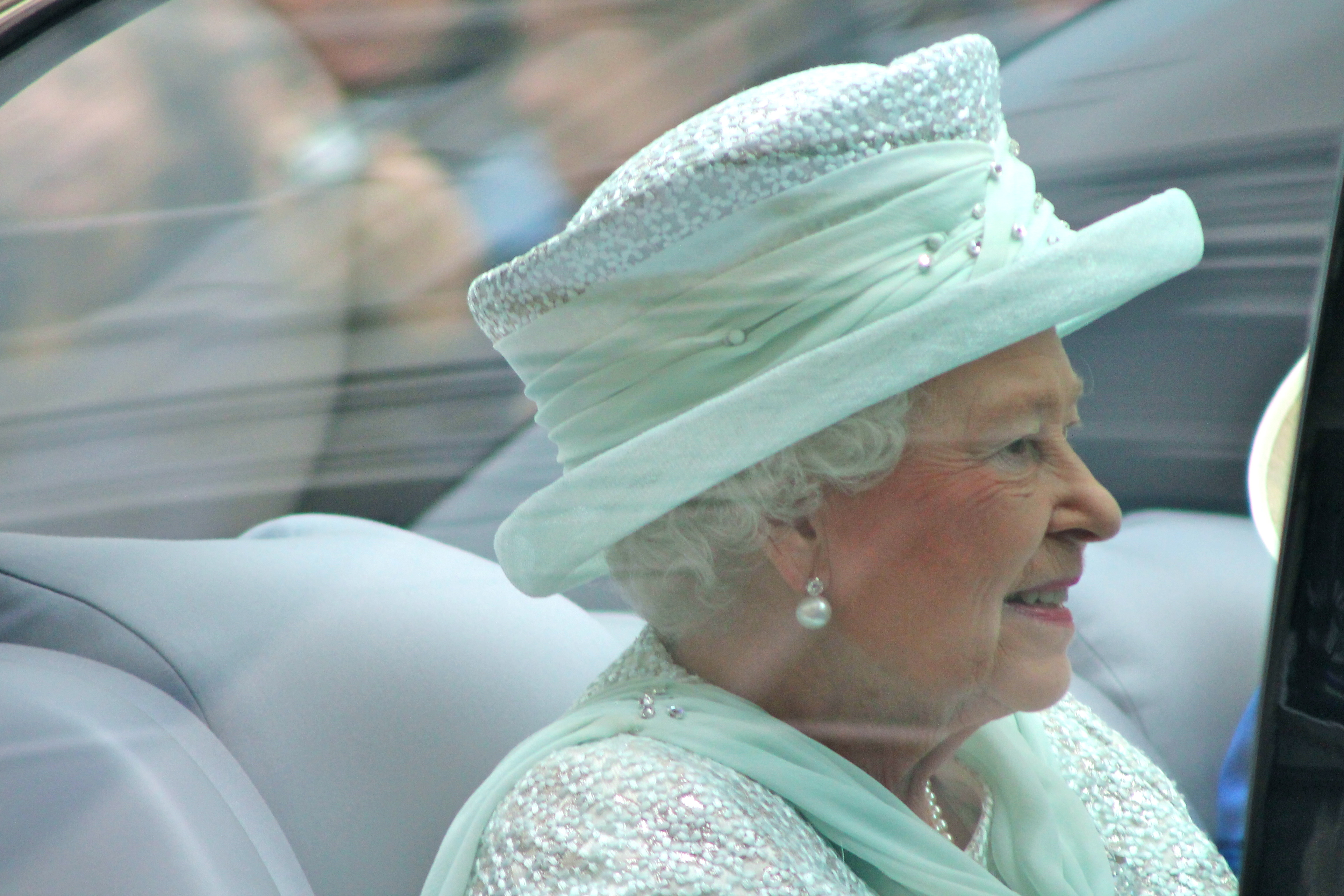 HM the Queen driving to St Paul's Cathedral during the Diamond Jubilee celebrations of 5 June 2012